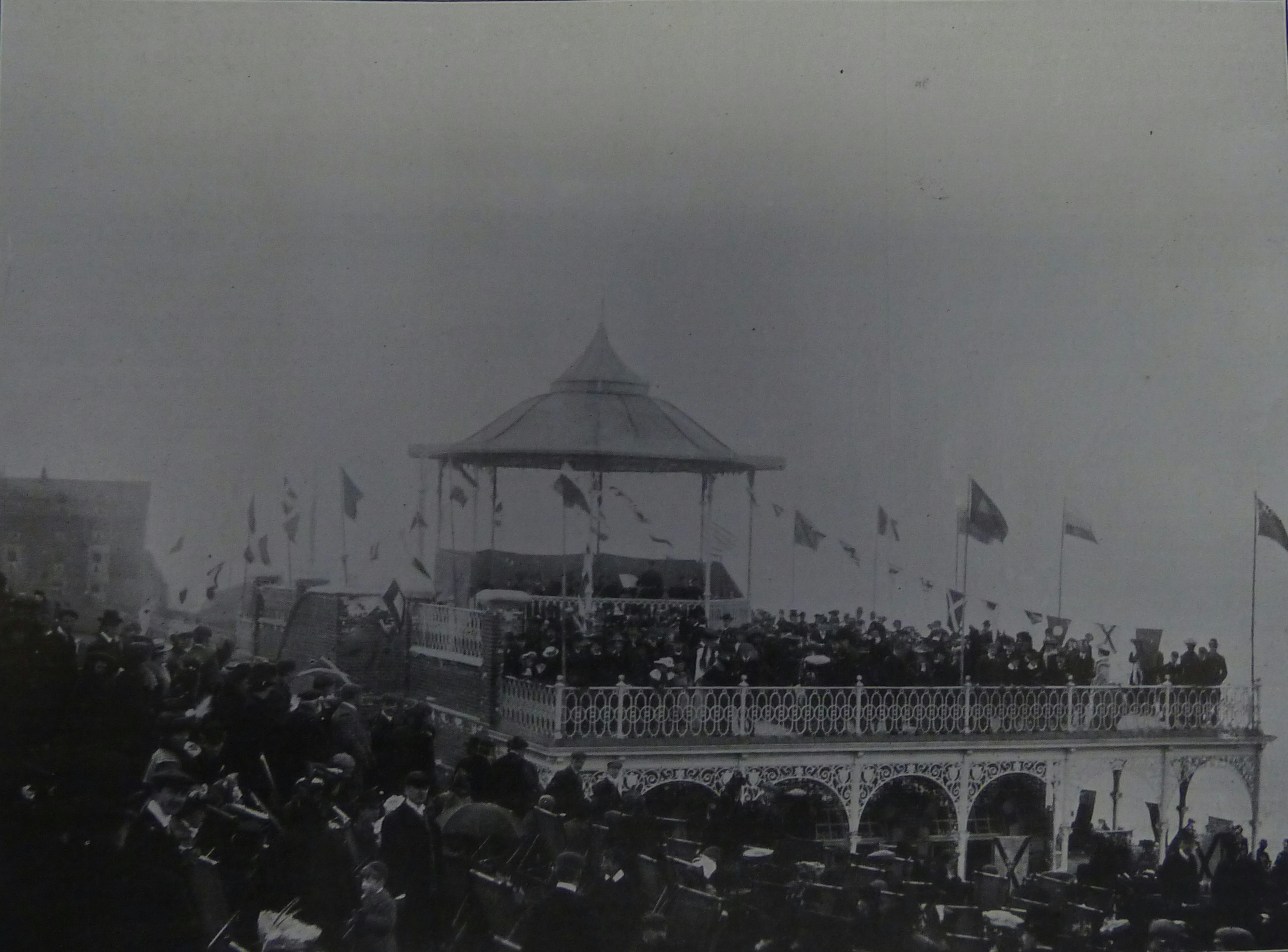 The Pavilion or Bandstand (later called the King's Hall), Herne Bay, Kent, England, on Opening Day of its first phase, 4 April 1904. Points of interest There is a band playing in the bandstand. The bandstand no longer exists on top of King's Hall.